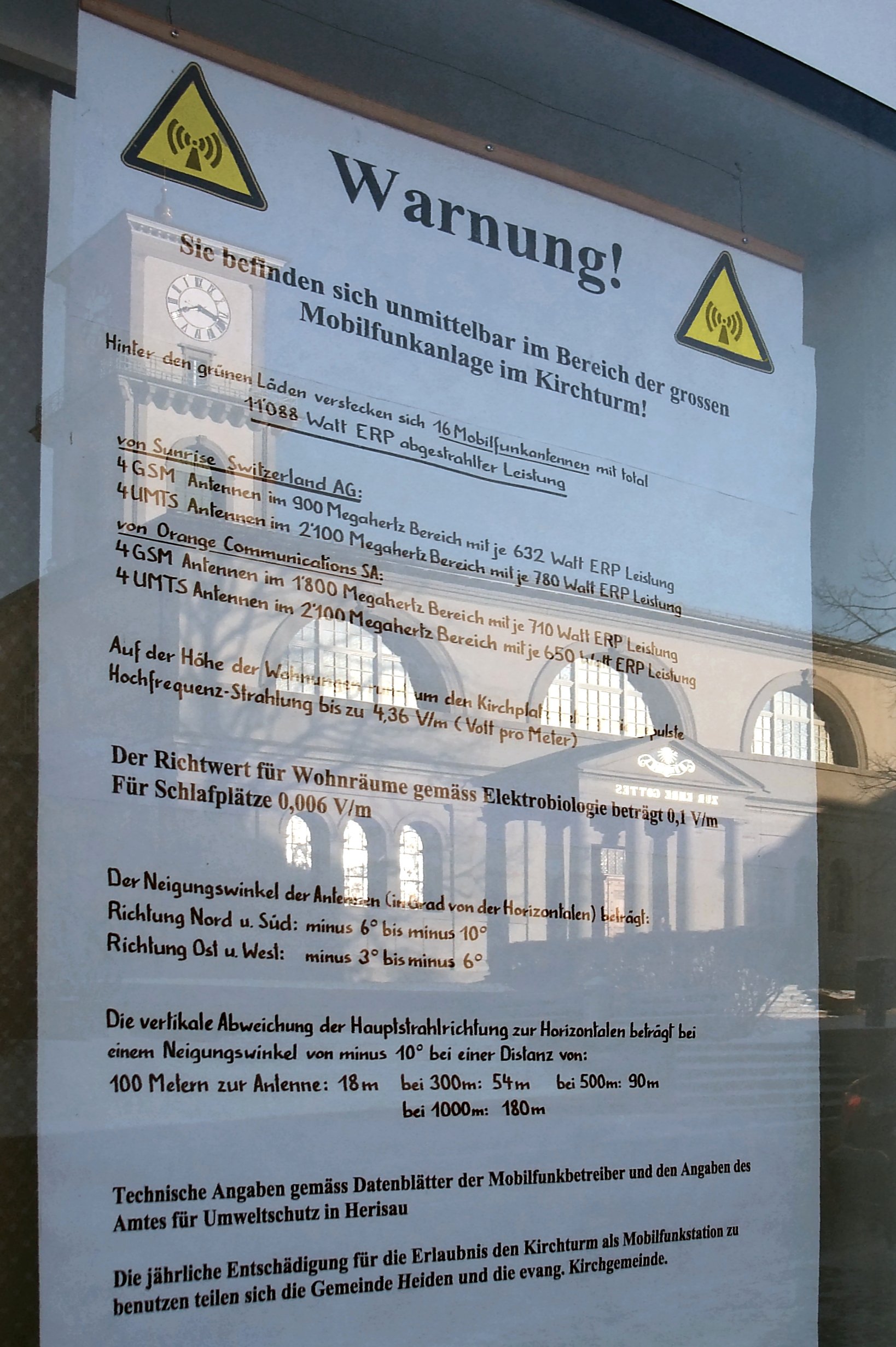 «Warning! You are located directly in the field of the large mobile phone plant in the bell tower!» This poster hangs in the window of a shop opposite the church in Heiden. The reflection of the church in the window is real and no editing. It's about hidden mounted mobile phone antennas in the bell tower and the radiation from there. When churches collect less and less taxes, they must rely on other sources of income. And so steeples become transmitting stations. Switzerland, Jan 3, 2010.